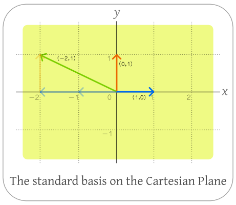 This picture illustrates how two vectors in R2 (or R x R) can be written in terms of the standard basis. B = {(1,0), (0,1)} Notice how span(B) = R2, and how (-2, 1) = (-2)(1,0) + (1)(0,1).